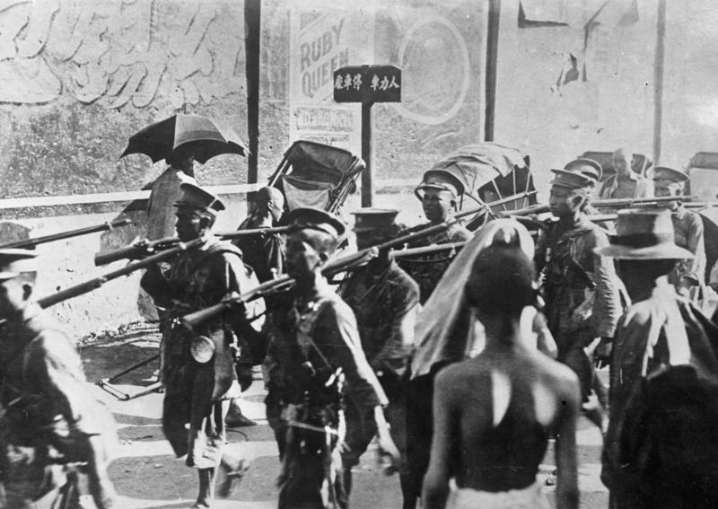 According to the original photo description, it was taken near the Northern Great Camp (北大营) during the Mukden Incident. This is an error in the title. The soldiers belong to the National Revolutionary Army (Southern army) and it was taken during Northern Expedition. The advertisement of "Ruby Queen" (紅錫包) cigarette and a rickshaw stop can be seen behind soldiers.